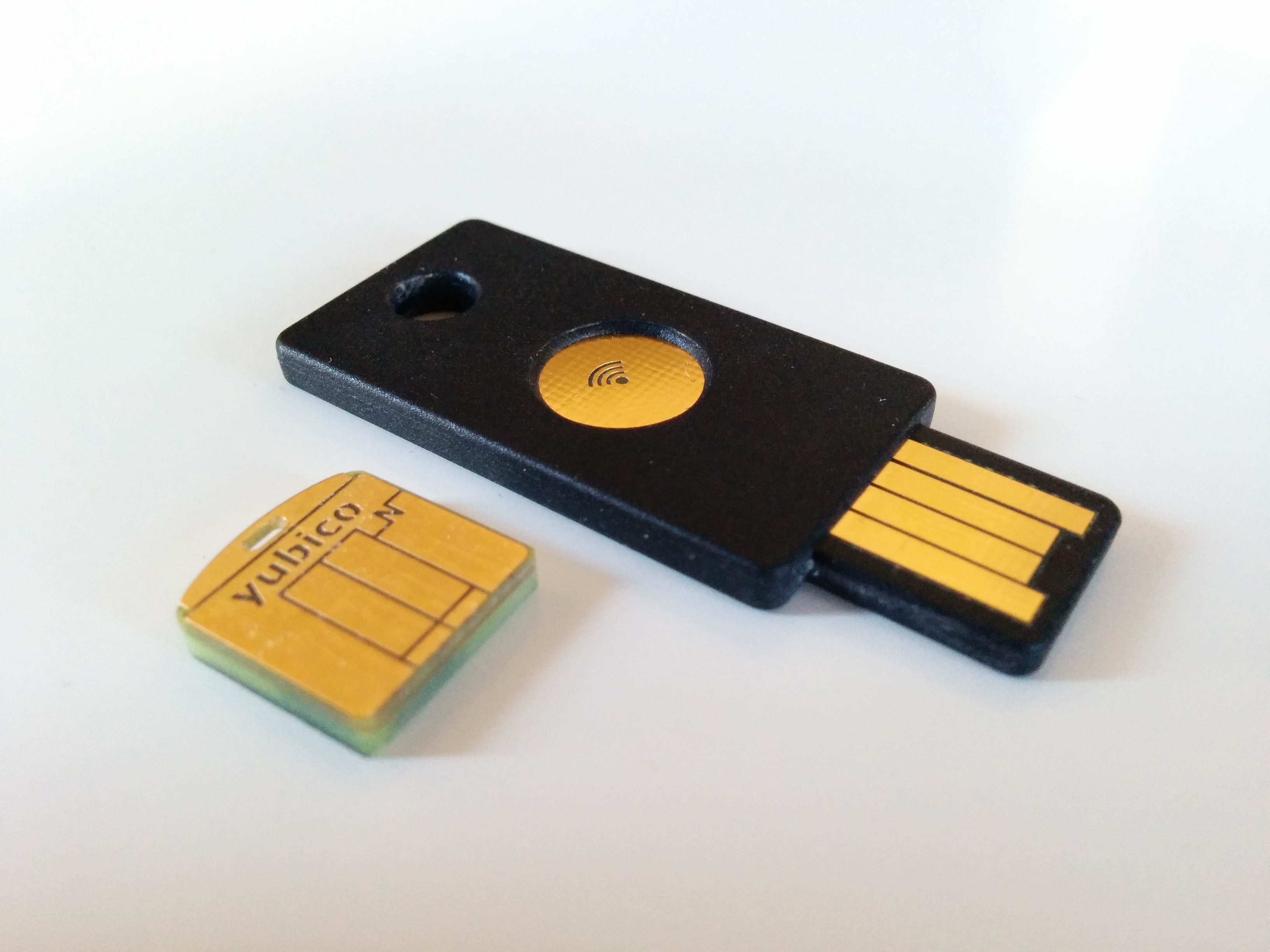 YubiKey Neo and Nano USB devices from Yubico. They both implement HOTP (via USB HID) and OpenPGP card:OpenPGP card interfaces. The larger Neo also has NFC communication.